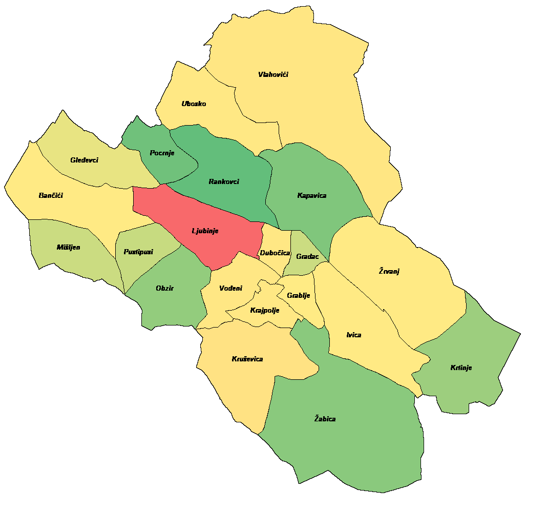 Ljubinje